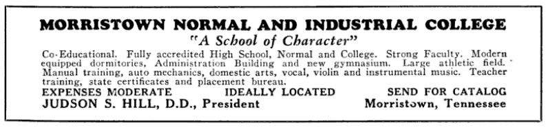 Screen shot of an advertisement from The Crisis magazine, 1931.